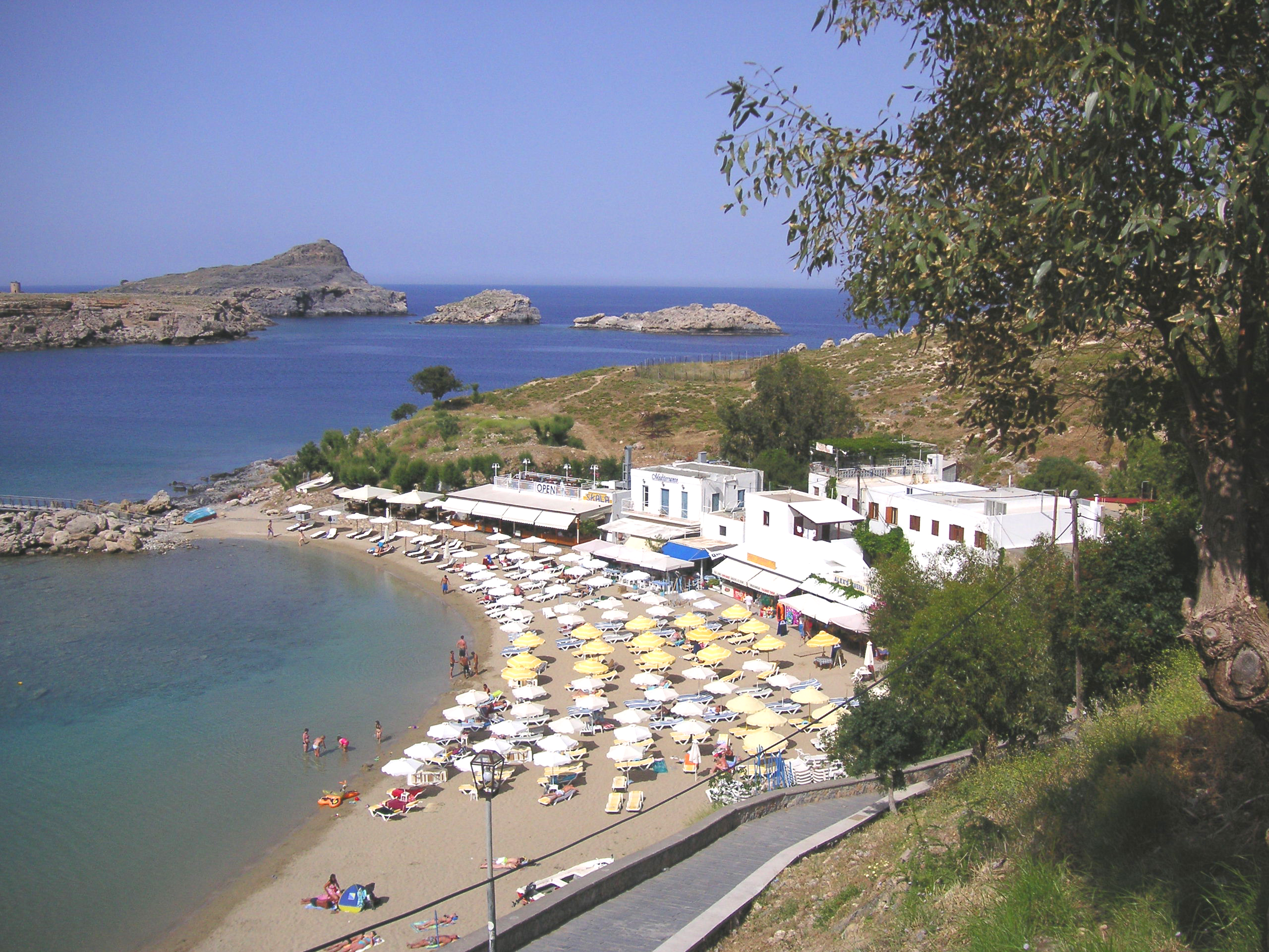 Pallas beach of Lindos, Rhodes